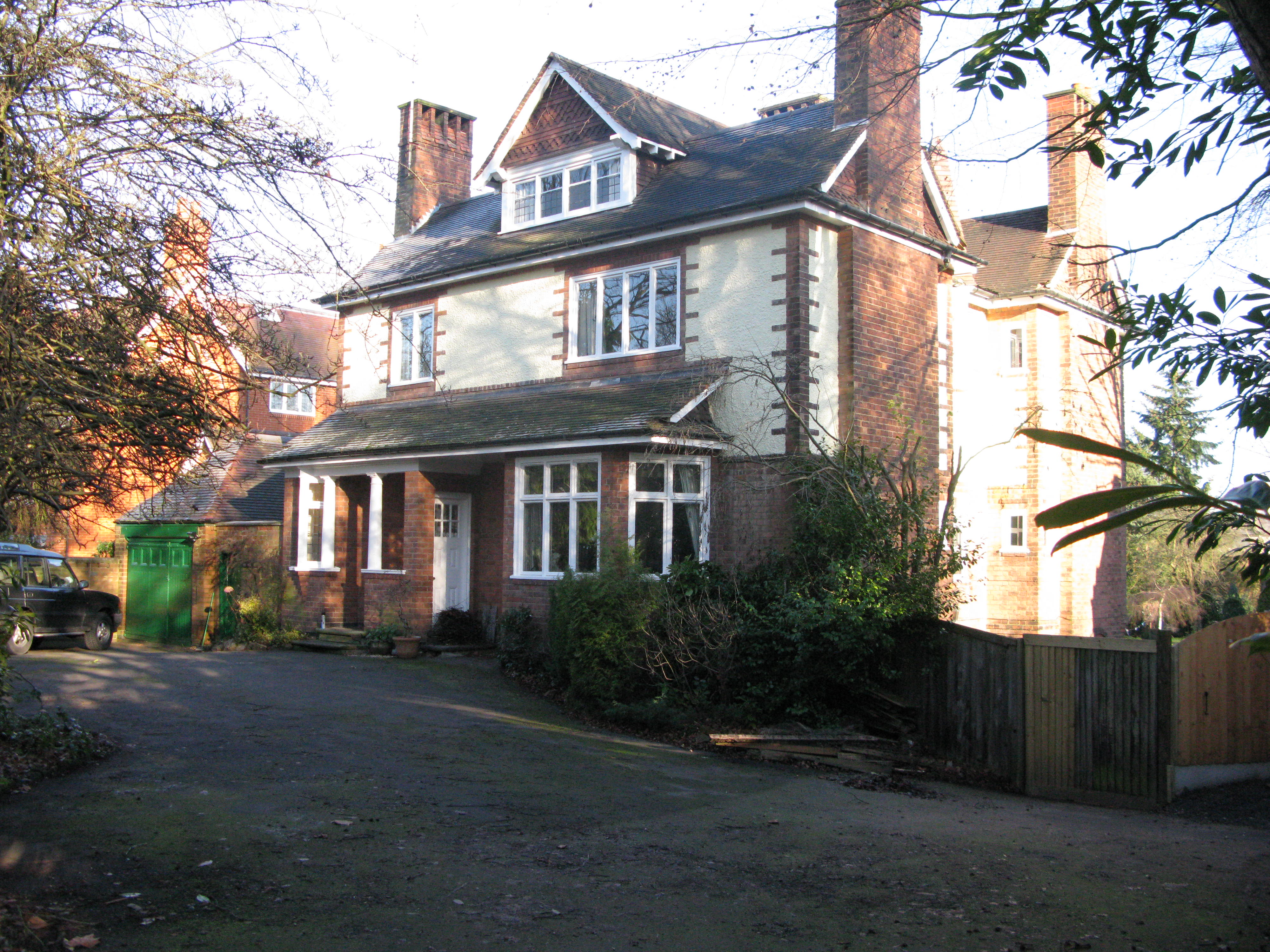 Grade II. Private Dwelling. Farquhar Road is in Edgbaston